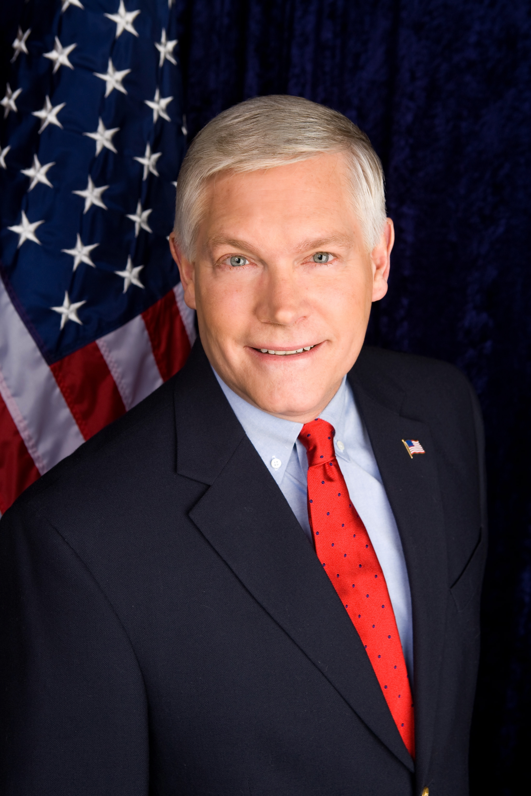 Congressman Pete Sessions